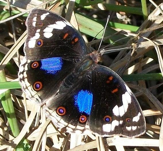 Junonia oenone, Amanzimtoti, South Africa.